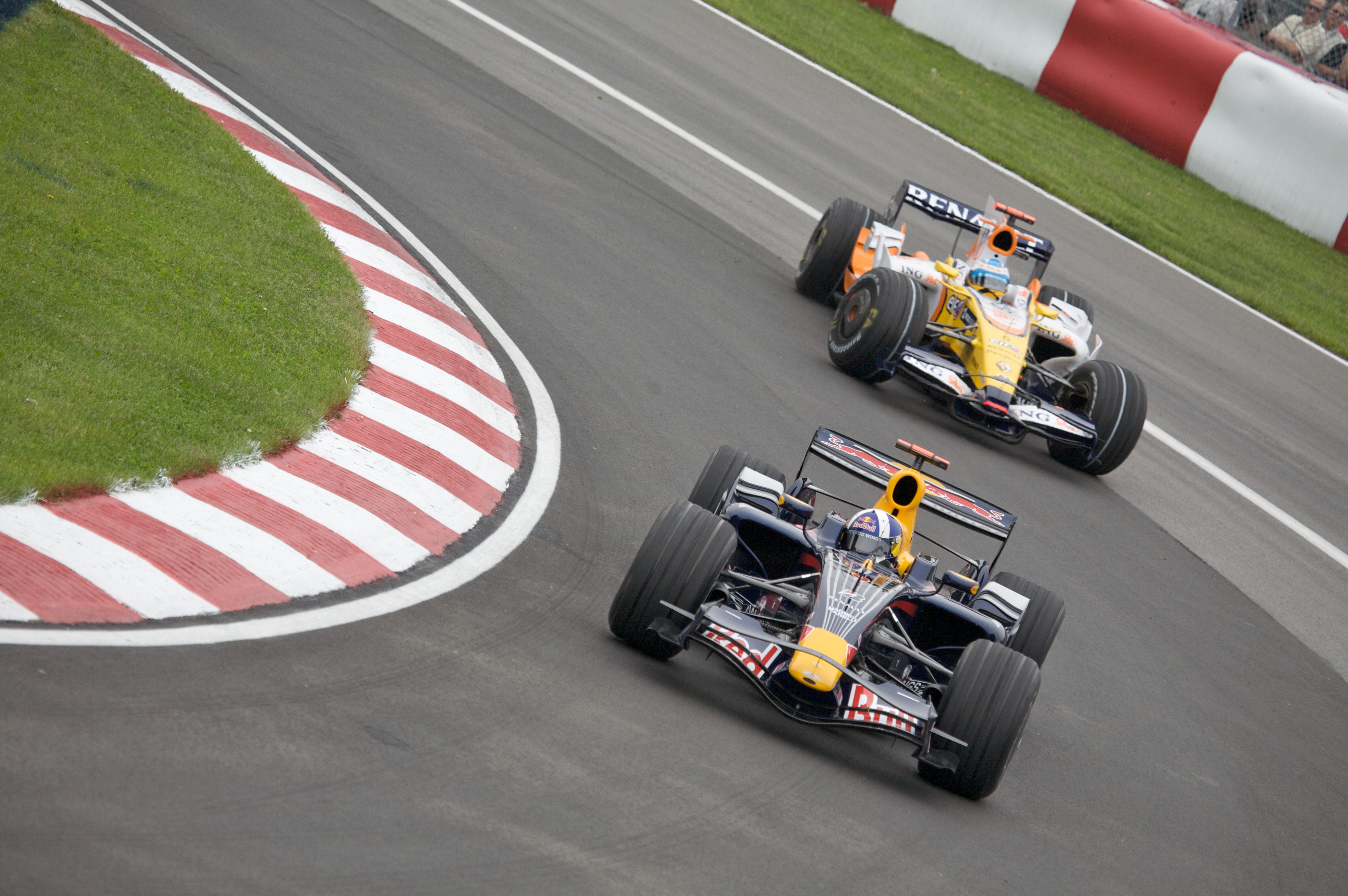 DC and FA at Canada 2008